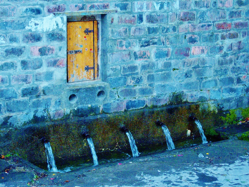 beshbulaq